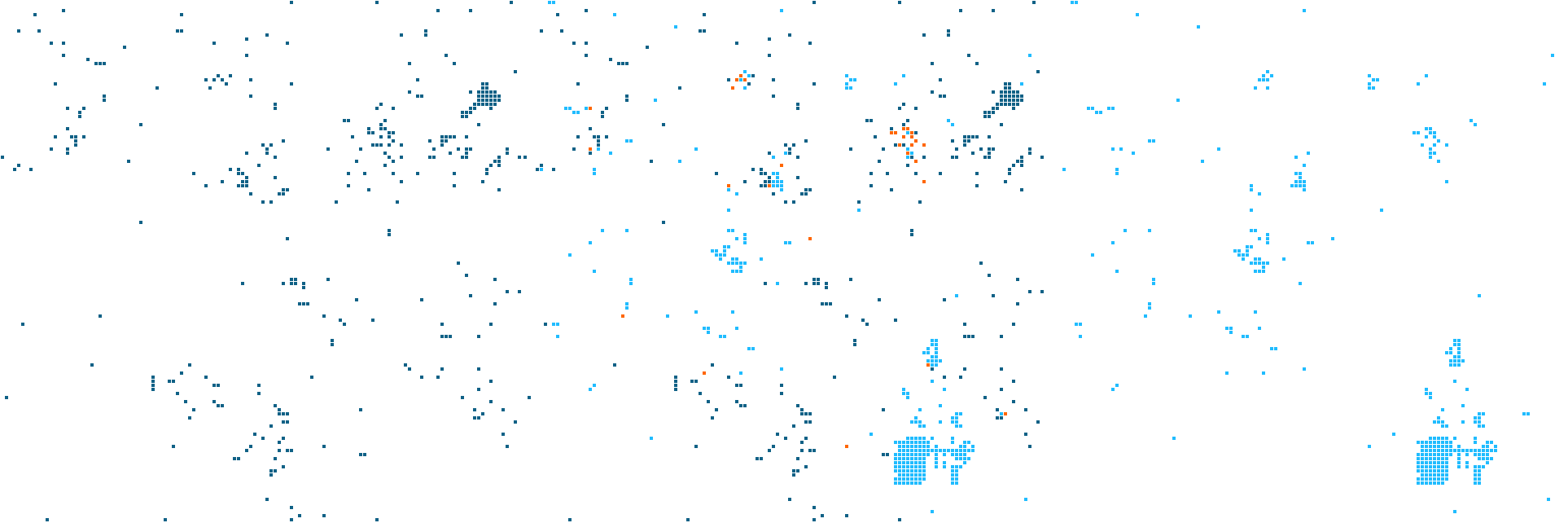 This image shows that the semantic fingerprint representation enables a direct visual comparison of the semantics of two terms, with the example of two disparate terms like "dog" and "car". It illustrates the page Semantic folding.